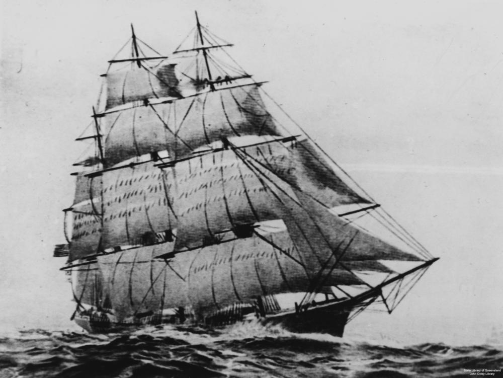 Holds the world's record for passages from New York to San Francisco, and made many fast passages from Britain to Moreton Bay with immigrants (from an original painting by C.R.Patterson). Publisher: John Oxley Library, State Library of Queensland Description: Digital format: image/jpeg ; Original format: copy print : b&w Identifier: Image number: 19316